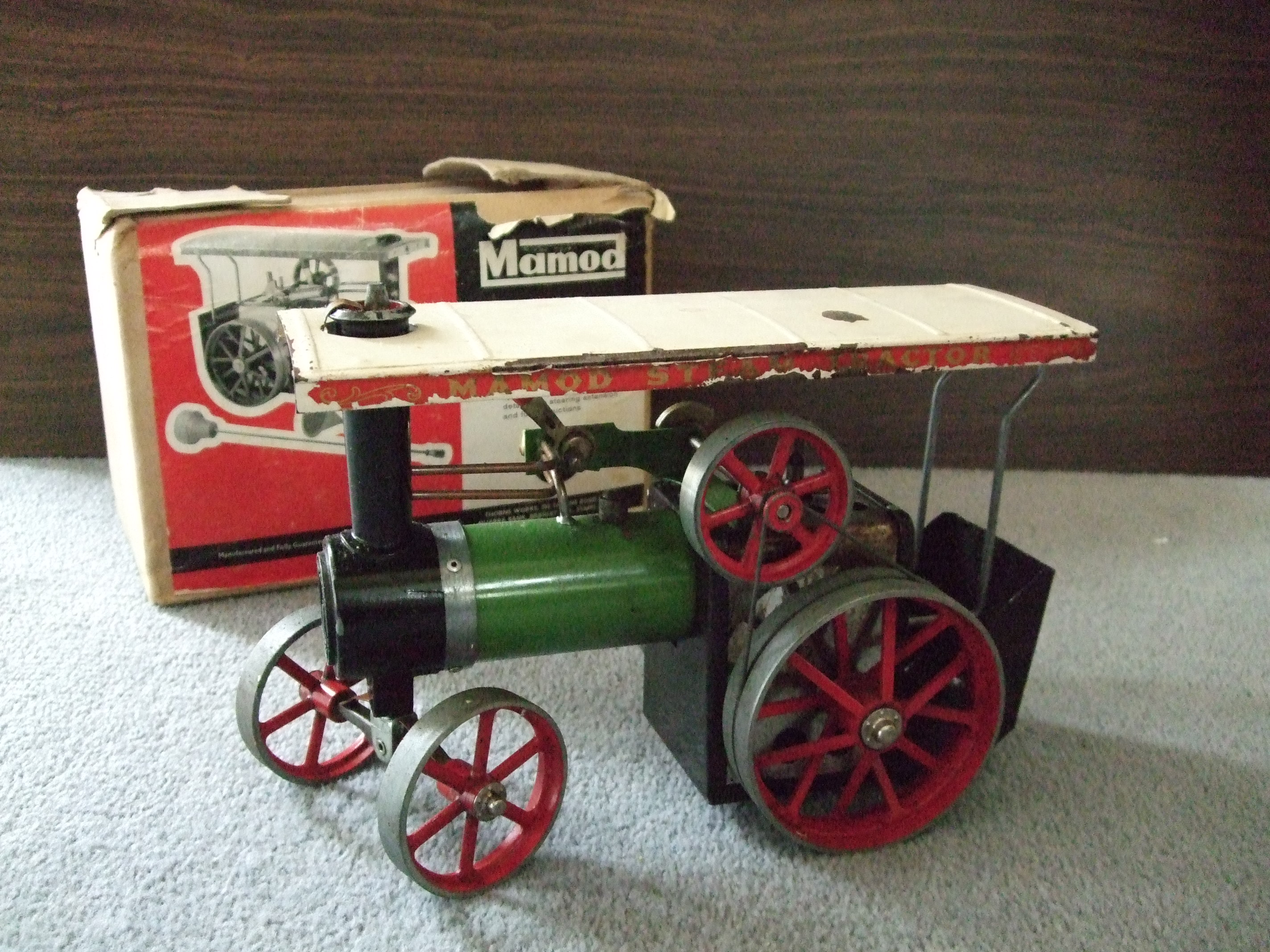 A photograph of a Mamod TE1a model steam traction engine and the original box